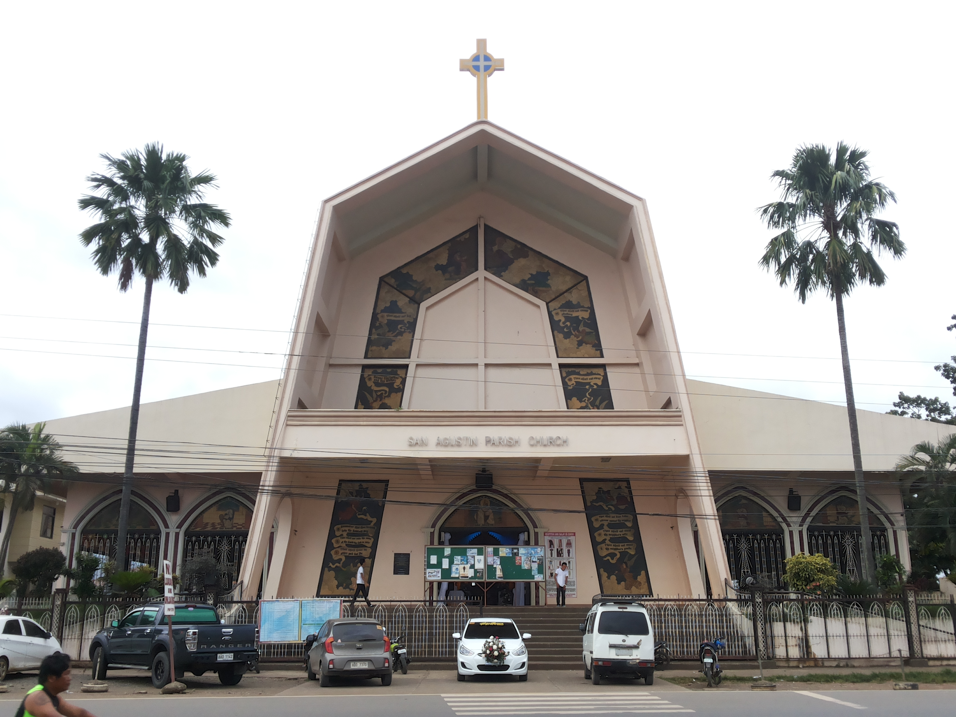 The facade of the famous church/cathedral in Valencia City, Bukidnon.